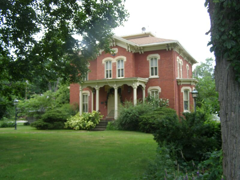 Everel S. Smith House, Westville, Indiana